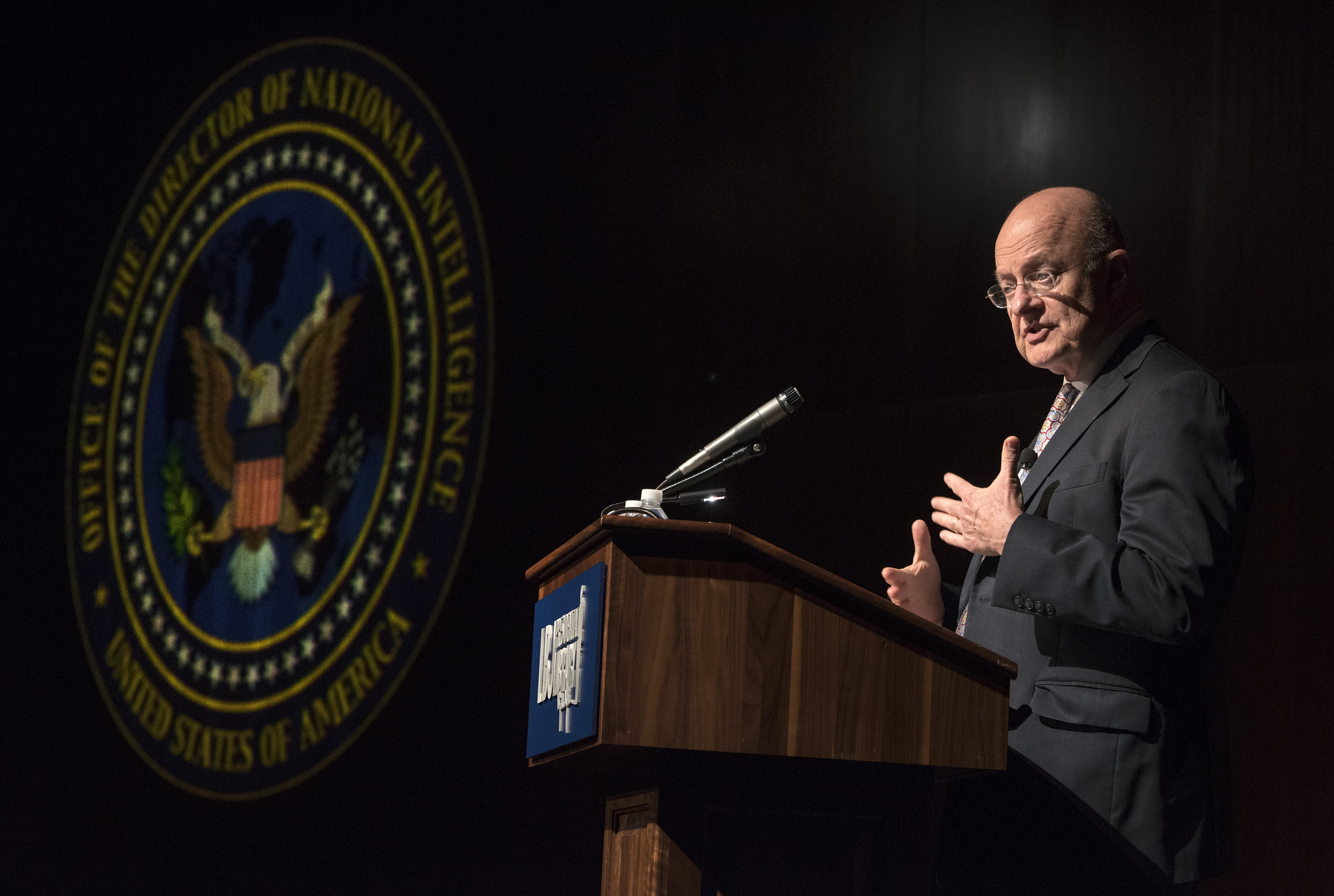 In a speech at the LBJ Presidential Library on Thursday, Sept. 22nd, 2016, Director of National Intelligence James Clapper discussed national security as we prepare for an election year change in the White House. Following his remarks, Admiral Bob Inman, former Director of the National Security Agency and Deputy Director of the CIA, and Stephen Hadley, former National Security Advisor, joined Clapper on stage for a conversation moderated by LBJ Library Director Mark Updegrove on the pressing national security issues facing our nation.